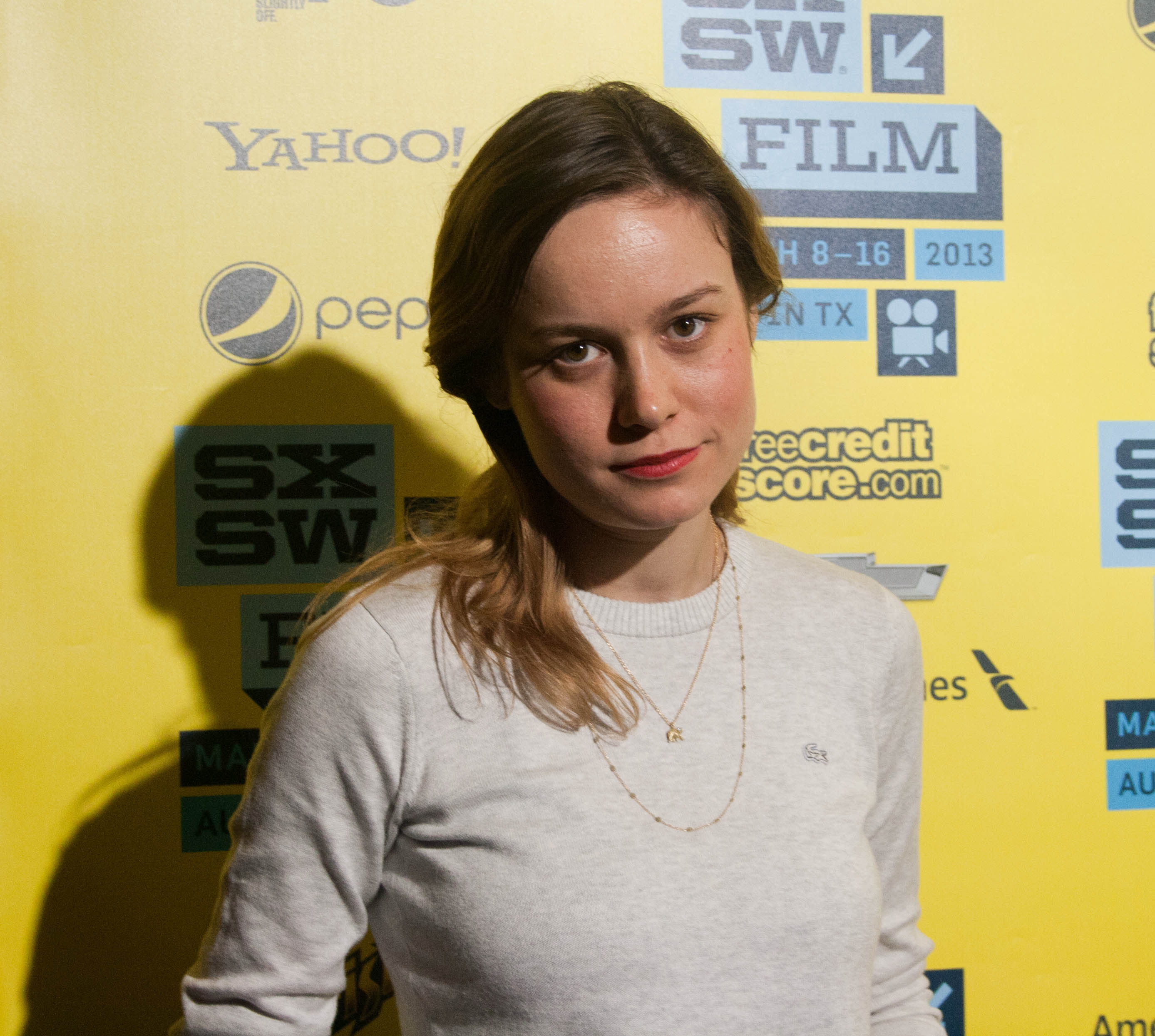 Brie Larson @ the SXSW premiere of Don Jon